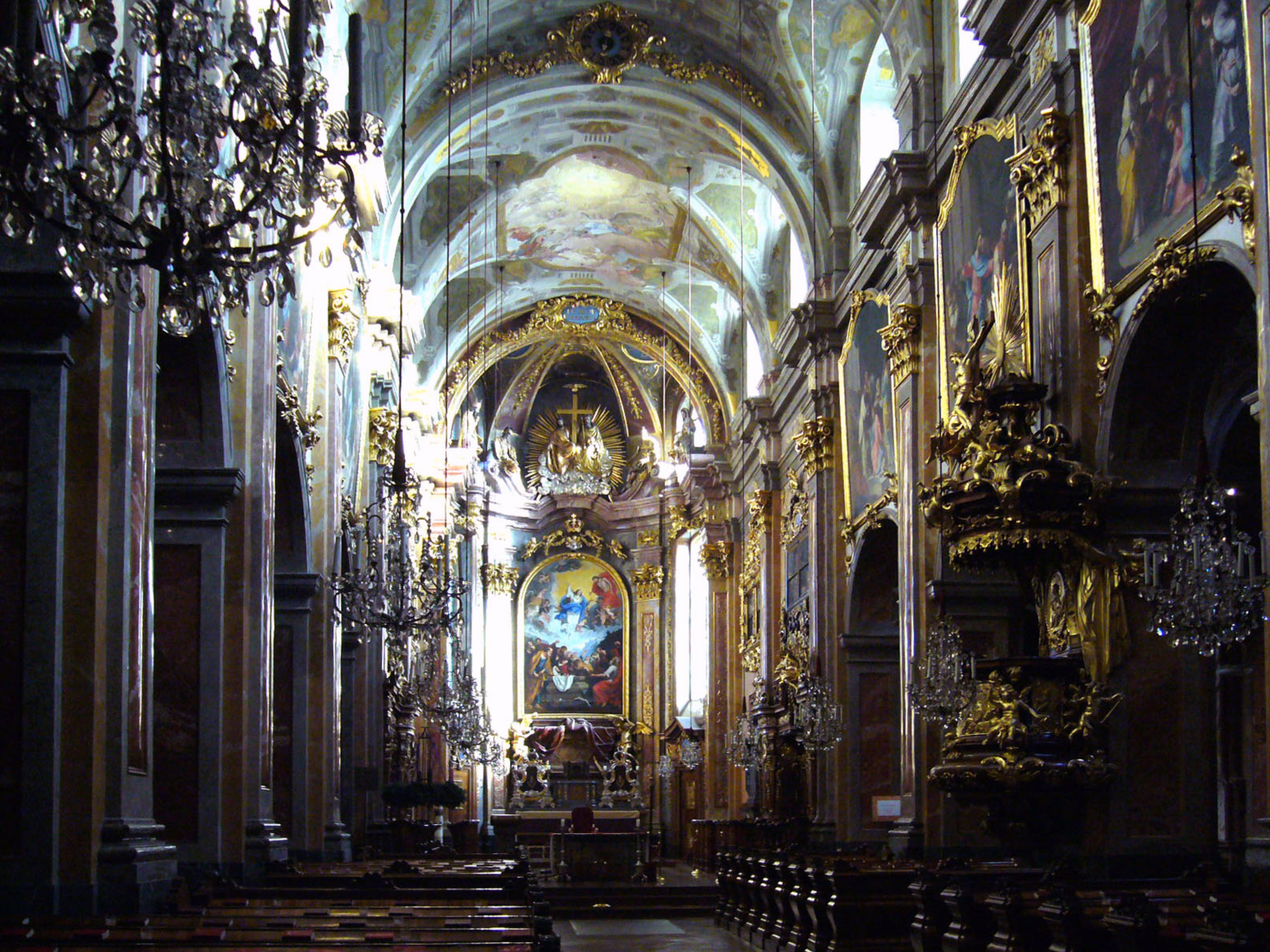 Cathedral of St.Poelten, Nave